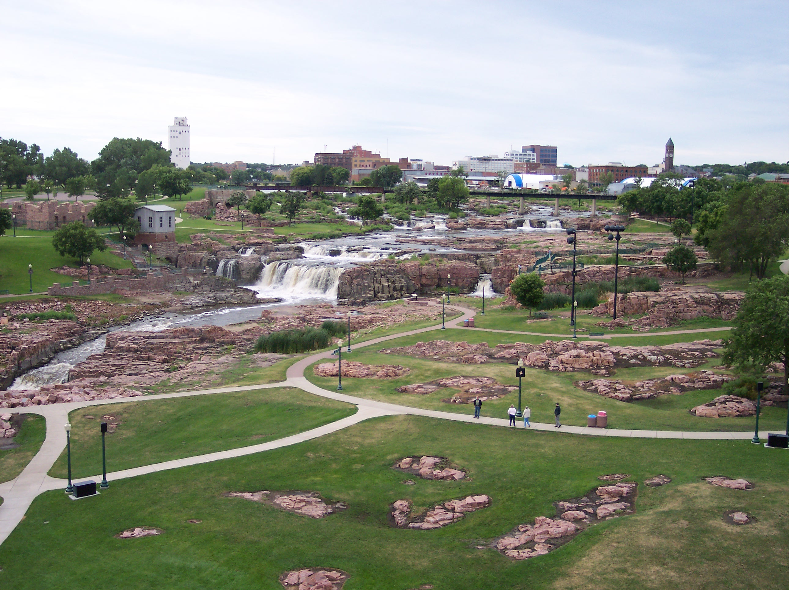 Sioux Falls, South Dakota Falls Park Create by Colin Faulkingham in Summer 2005